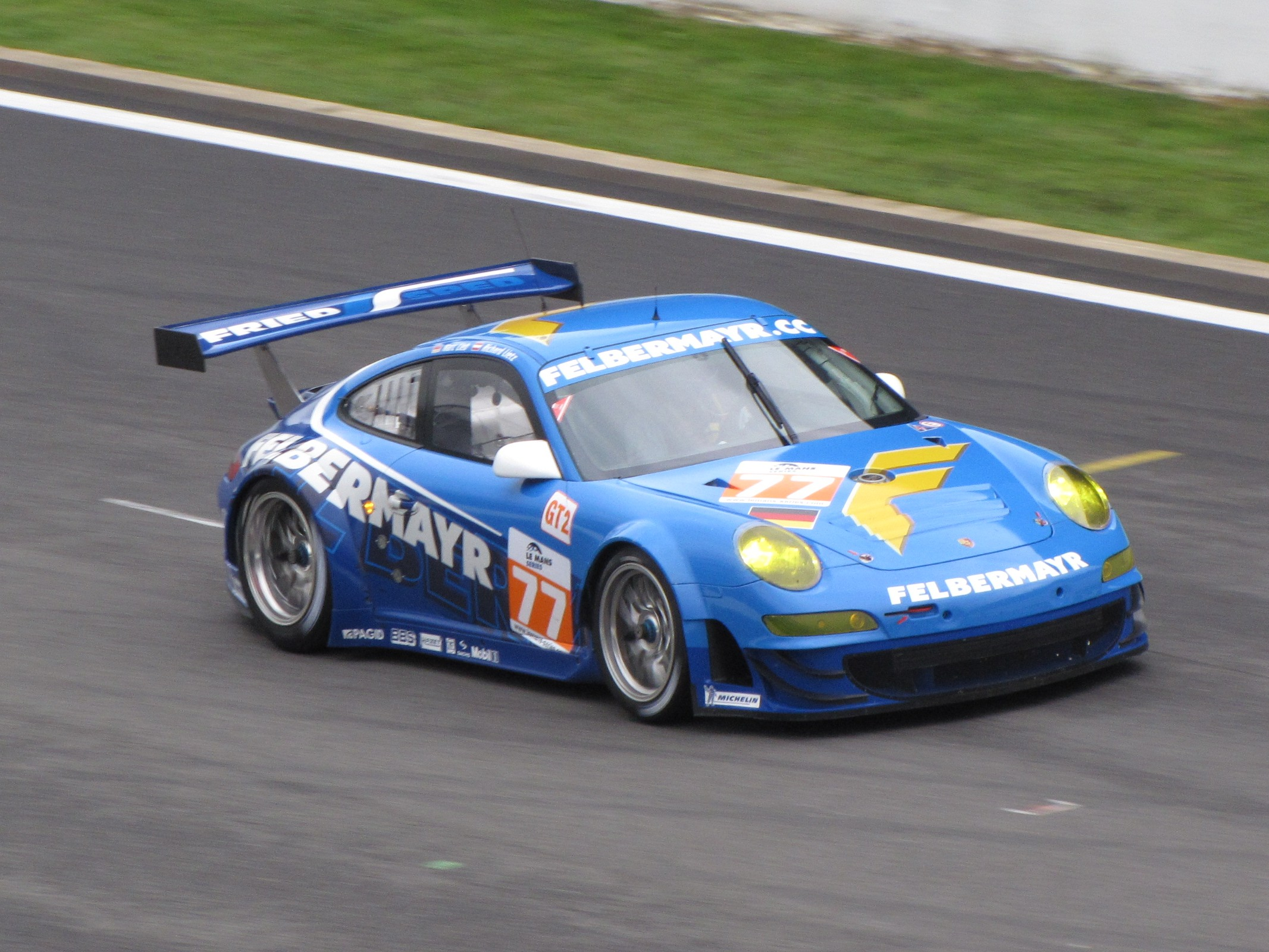 Marc Lieb driving a Porsche 997 GT3 RSR at training of the 1000 km of Spa 2010